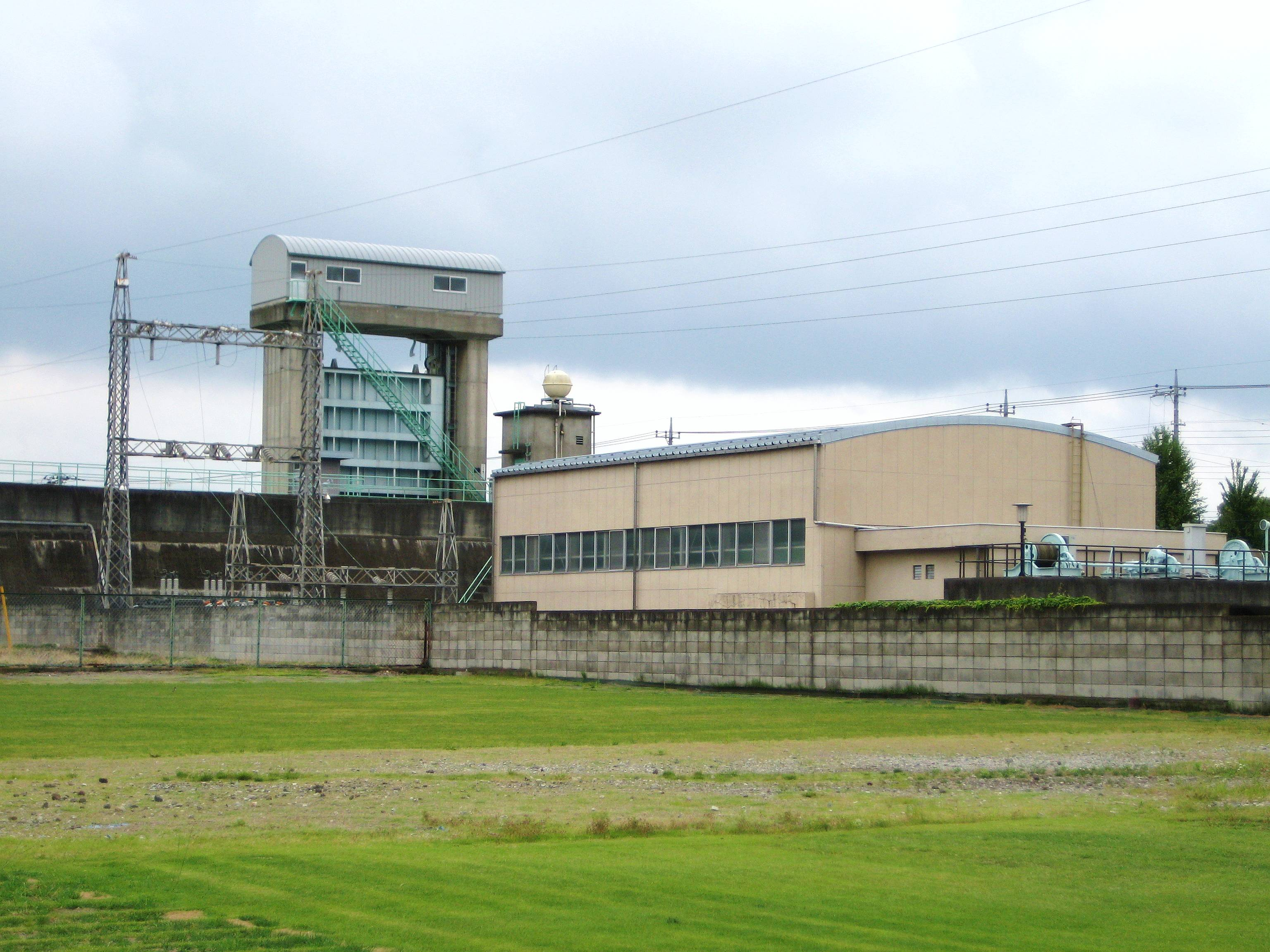 Koide power station.